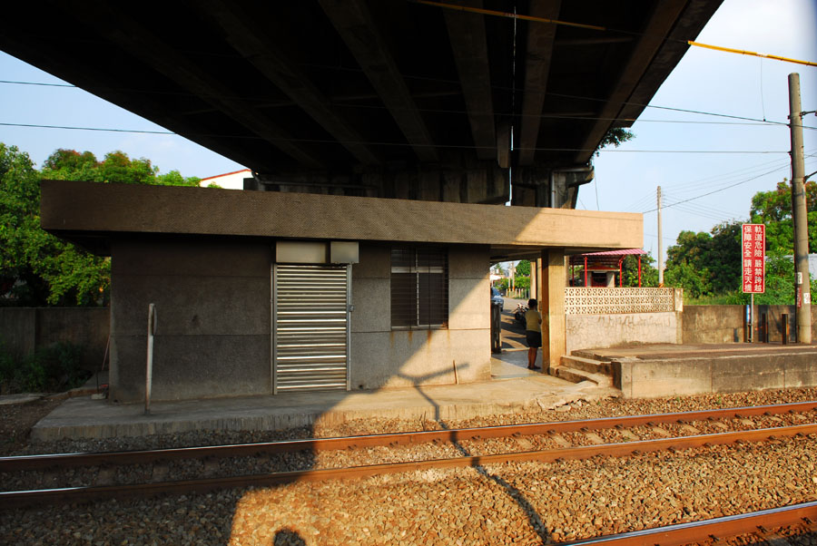 BaLin Station is a small local train station of Taiwan's Western main rail line. After the original 1973-built wooden station house torn down, the only structure in this station is the concrete flat house under the bridge.